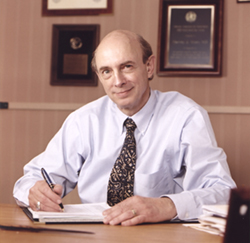 From NIH Clinical Center News Letter October 2000